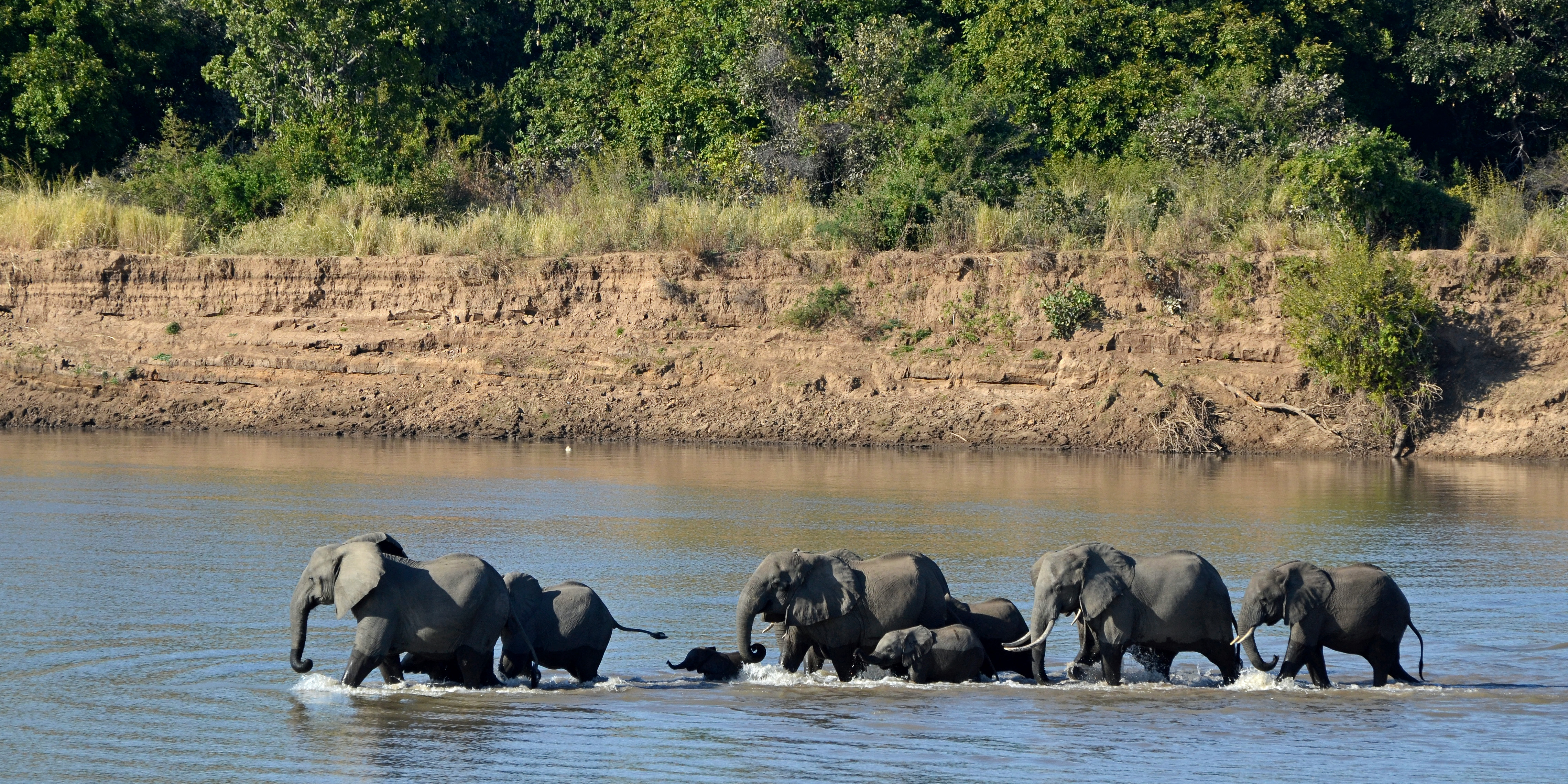 Elephants (Loxodonta africana) crossing the Luangwa River, South Luangwa National Park, Zambia.